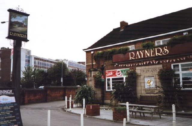 Rayner's Public House. Village Way East, Rayner's Lane, HA2 7LX. Internet sources indicate the pub will be closed down 21/Jan/2006. A shame, as it was a great live music venue.